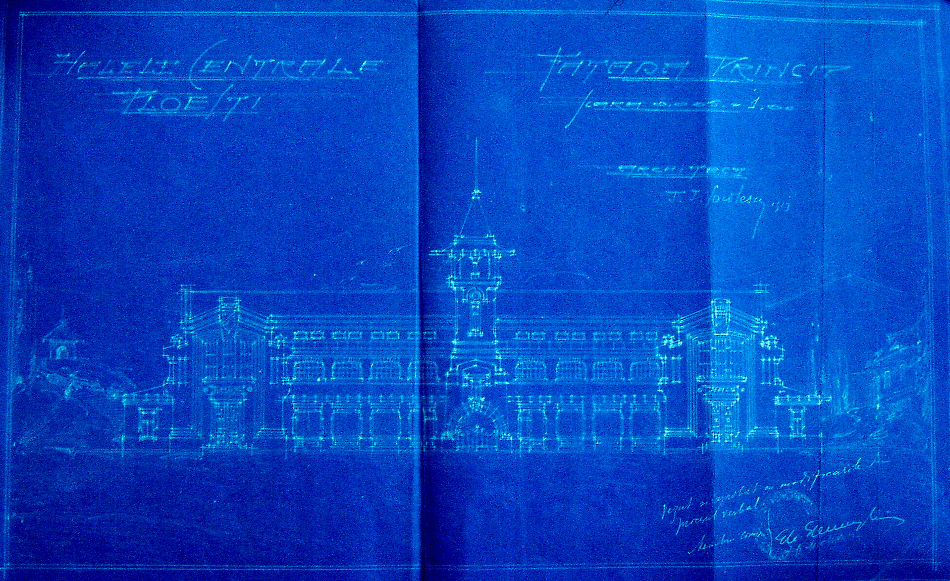 The Central Hall of Ploieşti, Romania. Architect: Toma T. Socolescu. Copy of a pre-project in 1913, signed by the author. This project will not be accepted. The final project plan will be made ​​circa 1929. This document is public and searchable at the National Archives of Ploiesti. The The Central Hall of Ploieşti is classified historical monument. We are the only heirs and descendants of Toma T. Socolescu (died in 1960 in Bucharest) and therefore owner of all his intellectual rights.